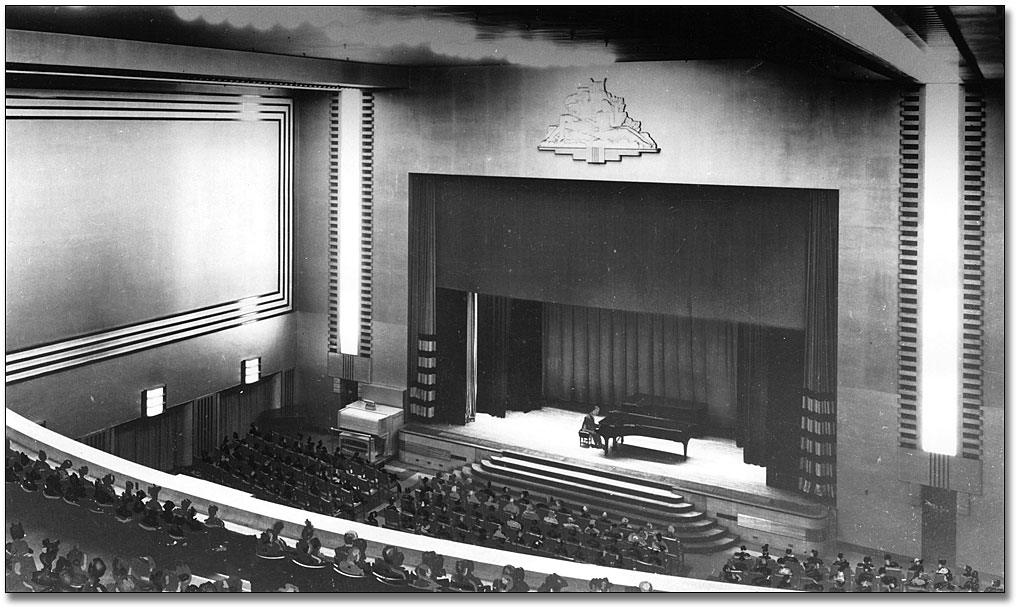 Photograph of Interior of the auditorium on the seventh floor of Eaton’s College St. store